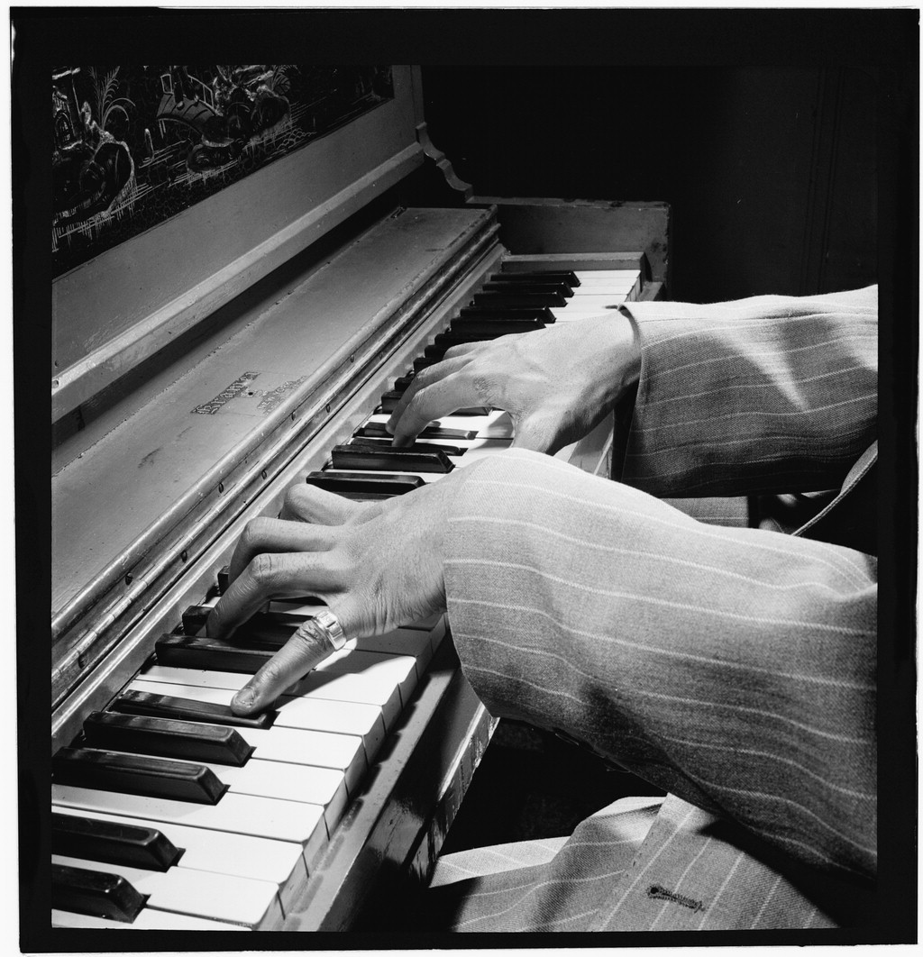 Nat King Cole, New York, N.Y., ca. June 1947 (Photograph by William P. Gottlieb)